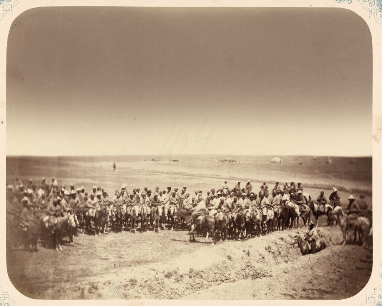 This photograph is from the ethnographical part of Turkestan Album, a comprehensive visual survey of Central Asia undertaken after imperial Russia assumed control of the region in the 1860s. Commissioned by General Konstantin Petrovich von Kaufman (1818–82), the first governor-general of Russian Turkestan, the album is in four parts spanning six volumes: “Archaeological Part” (two volumes); “Ethnographic Part” (two volumes); “Trades Part” (one volume); and “Historical Part” (one volume). The principal compiler was Russian Orientalist Aleksandr L. Kun, who was assisted by Nikolai V. Bogaevskii. The album contains some 1,200 photographs, along with architectural plans, watercolor drawings, and maps. The “Ethnographic Part” includes 491 individual photographs on 163 plates. The photographs show individuals representing the different peoples of the region (Plates 1–33); daily life and rituals (Plates 34–91); and views of villages and cities, street vendors, and commercial activities (Plates 92–163). Ethnographic photographs; Goats; Horseback riding; Horses; Kyrgyz; Photographic surveys